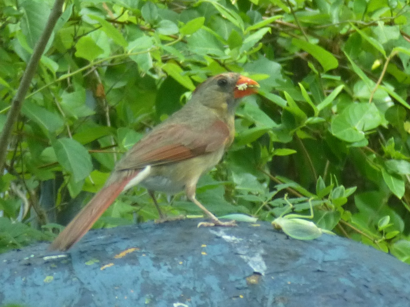 Female Cardinal Eating Katydid, Missouri Ozarks